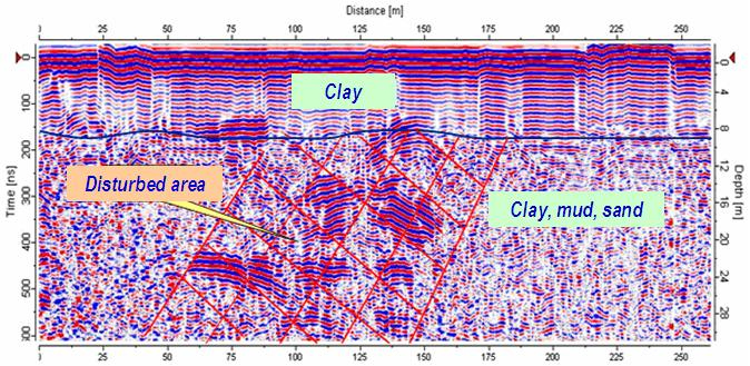 Georadar section along Saigon River bank at Thanh Da, Ho Chi Minh City, Vietnam. A disturbed area observed, where later the bank sunkTiếng Việt: Mặt cắt GPR dọc bờ sông Sài Gòn ở Thanh Đa, Tp. Hồ Chí Minh, trước khi sụt lở